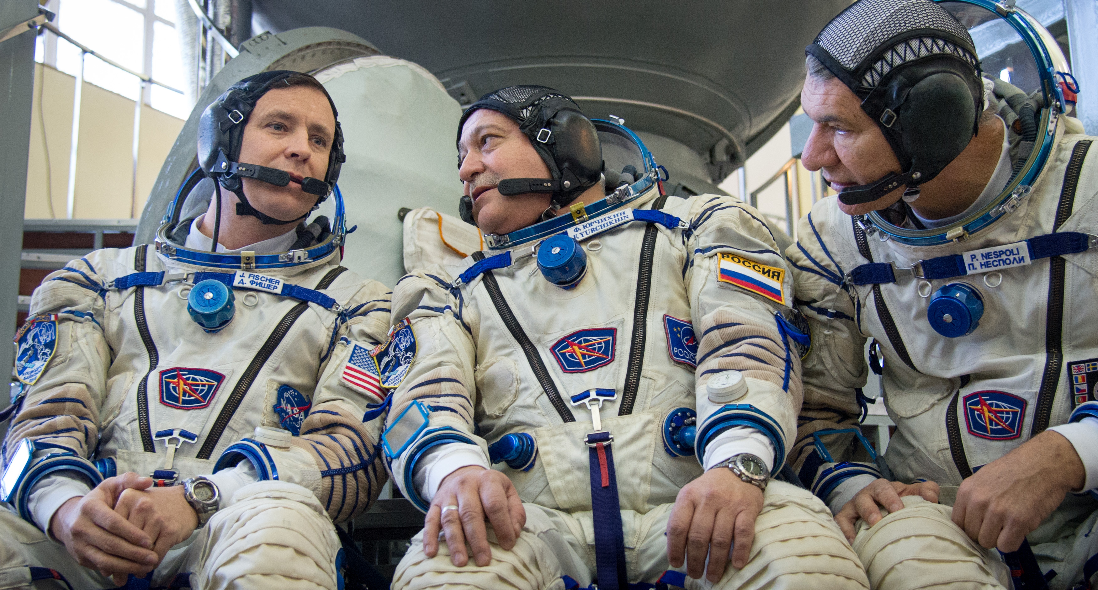 Expedition 50 backup crew members, NASA astronaut Jack Fisher, left, Russian cosmonaut Fyodor Yurchikhin of Roscosmos, center, and ESA astronaut Paolo Nespoli, left, answer questions from the press ahead of their Soyuz qualification exams, Monday, Oct. 24, 2016, at the Gagarin Cosmonaut Training Center (GCTC) in Star City, Russia.